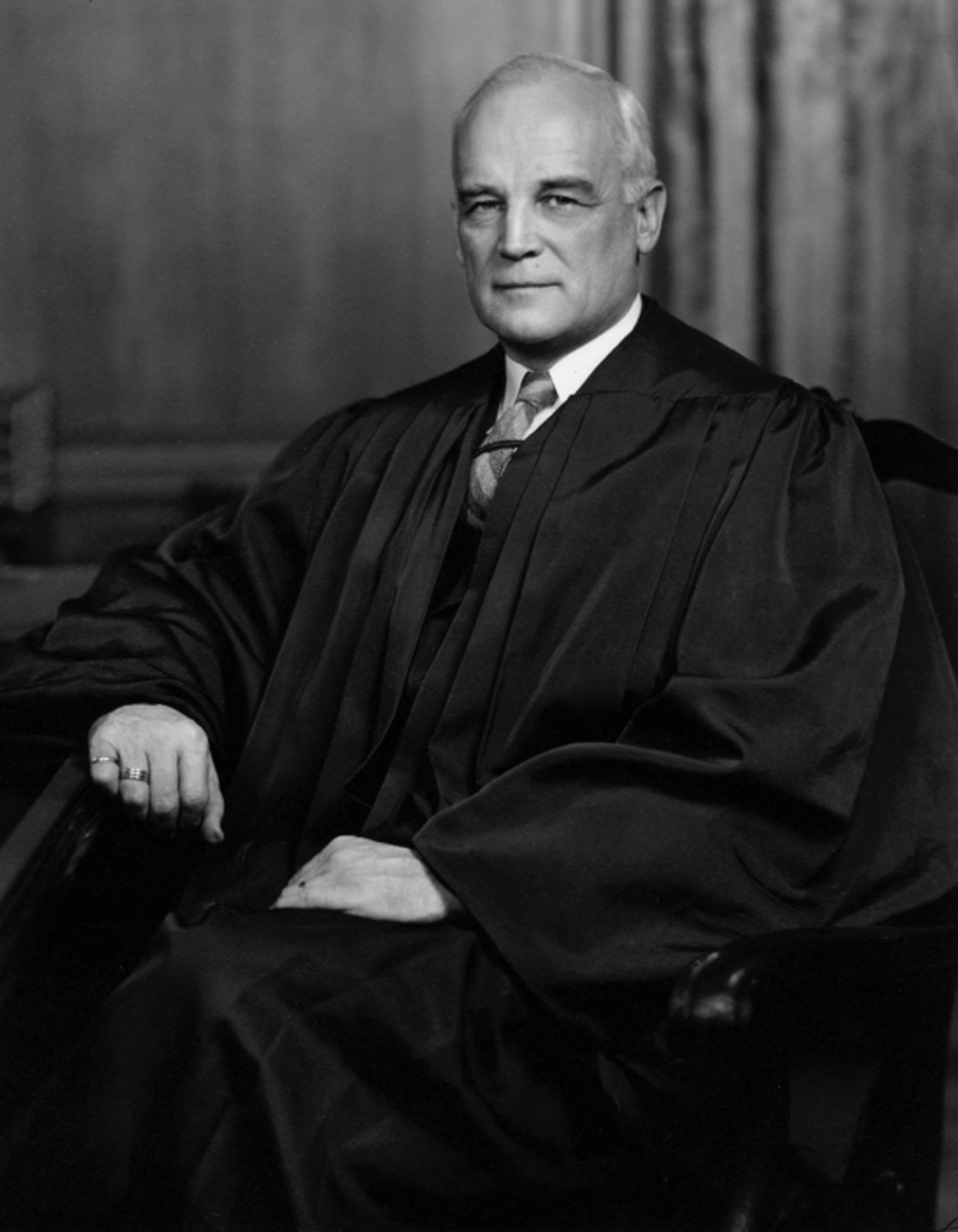 U.S. Supreme Court photograph of Harold Hitz Burton Courtesy of the Collection of the Supreme Court of the United States